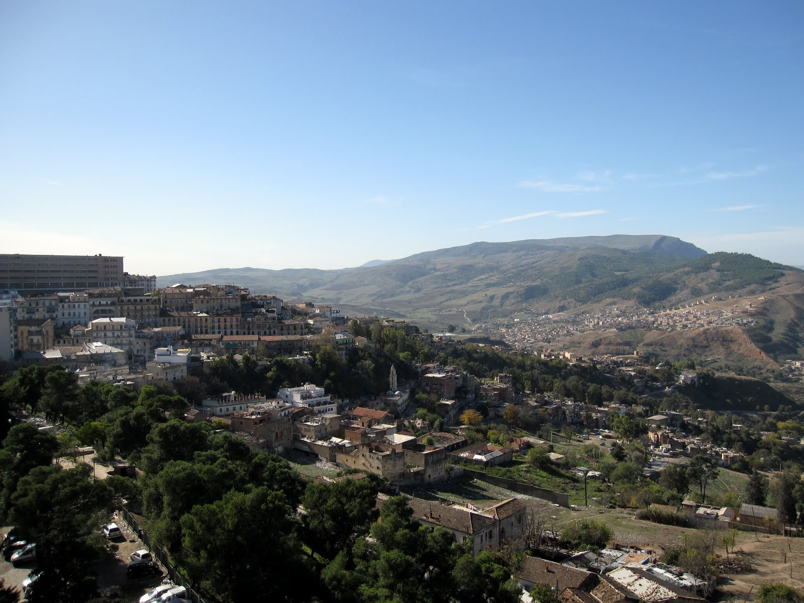 Back north, the hilltop city of Constantine, which Alexandre Dumas called, 'a fantastic city, something like Gulliver's flying island'.